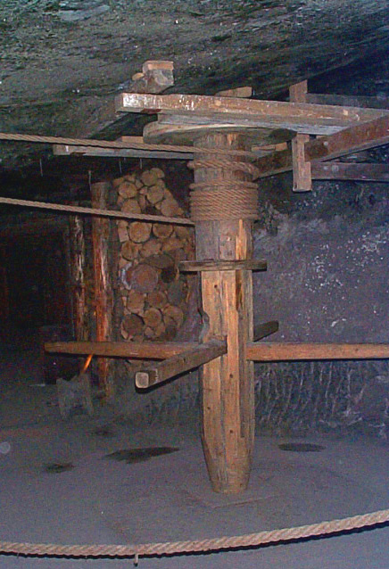 Old wooden winch in the Wieliczka salt mine, Poland